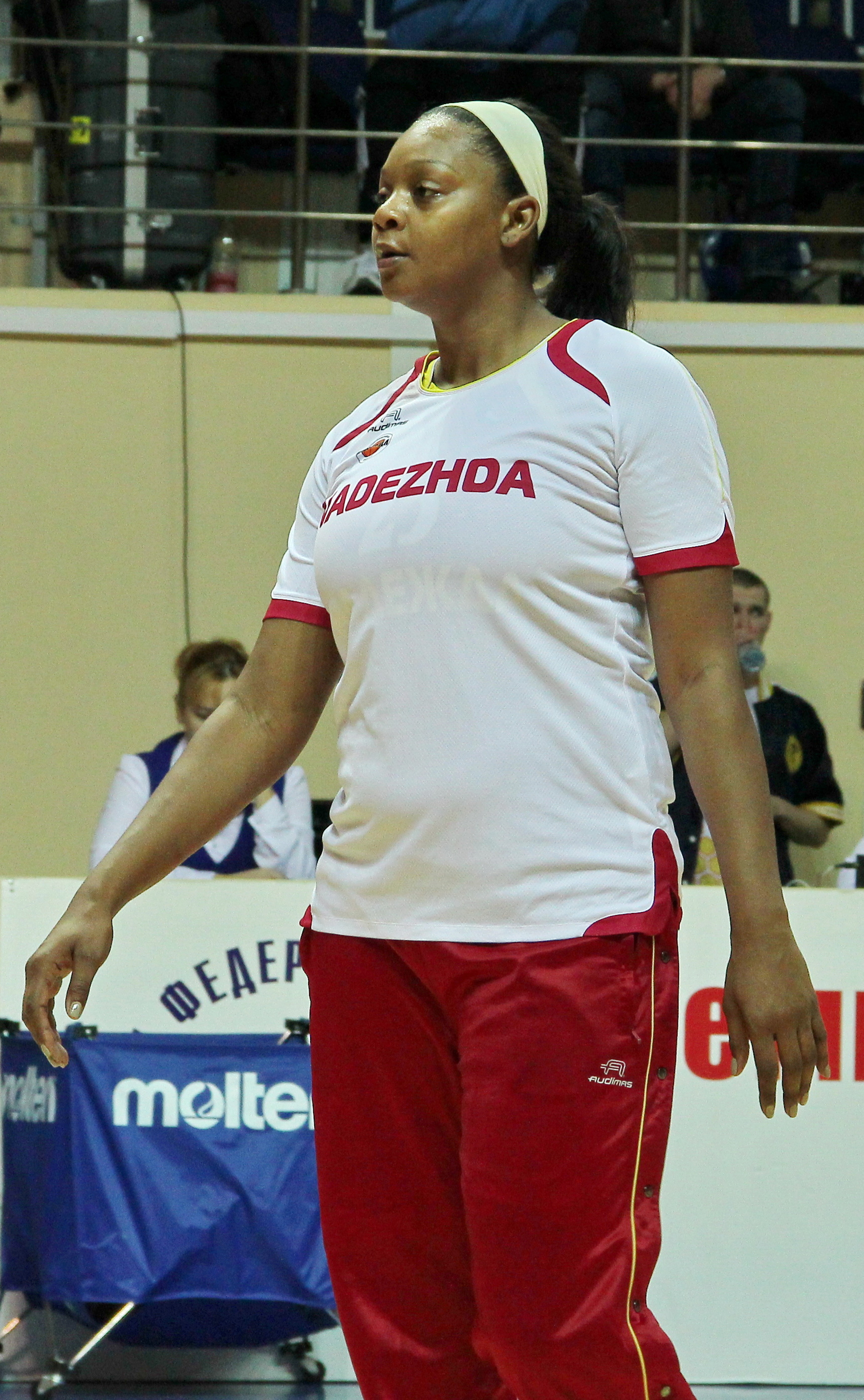 Russia, Vologda, Kara Braxton in game «Vologda-Chevakata» vs «Nadezhda» (Orenburg)